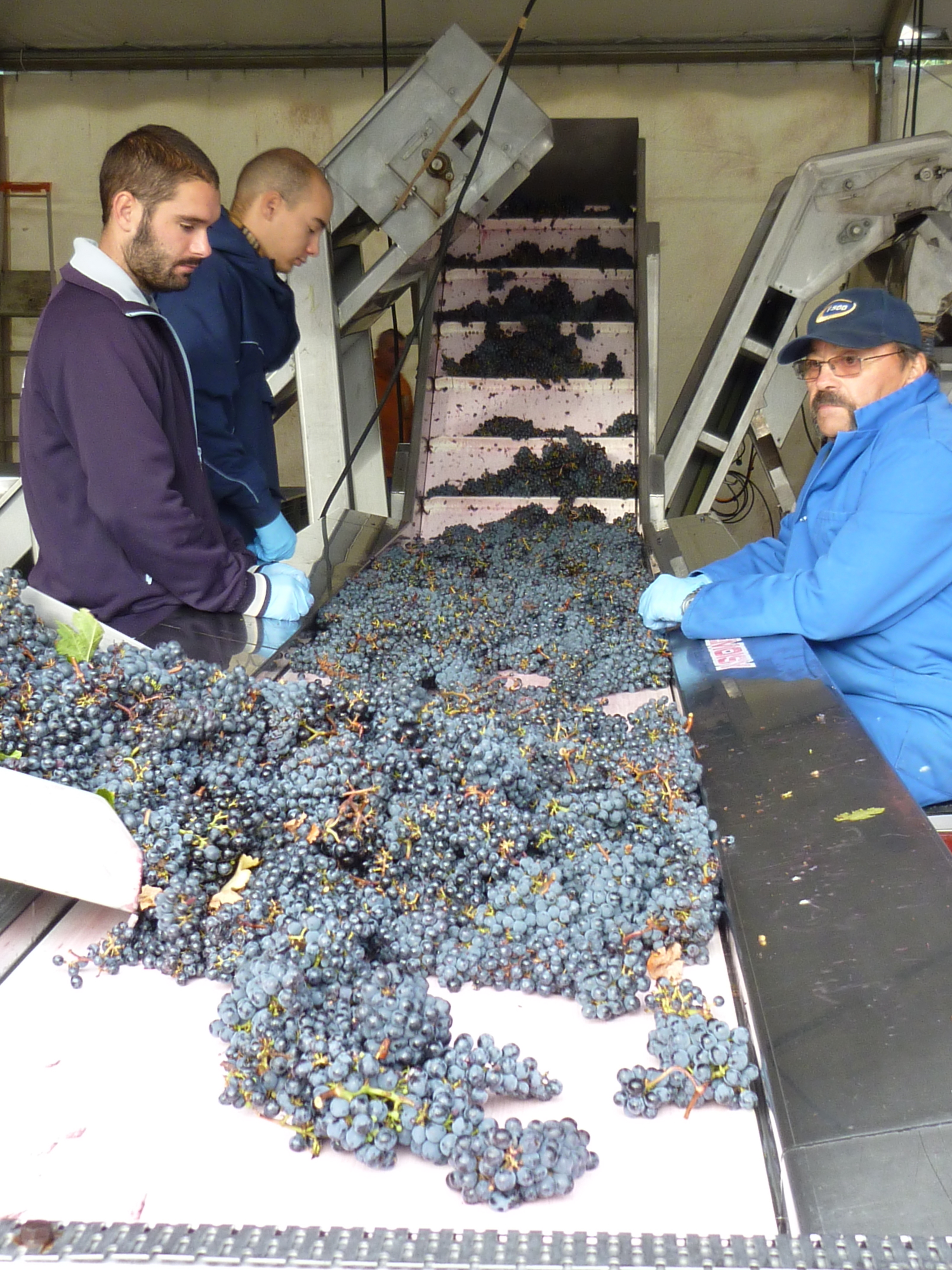 Freshly harvested grapes on a sorting table to have MOG (material other than grapes) and undesirable clusters removed prior to being crushed.